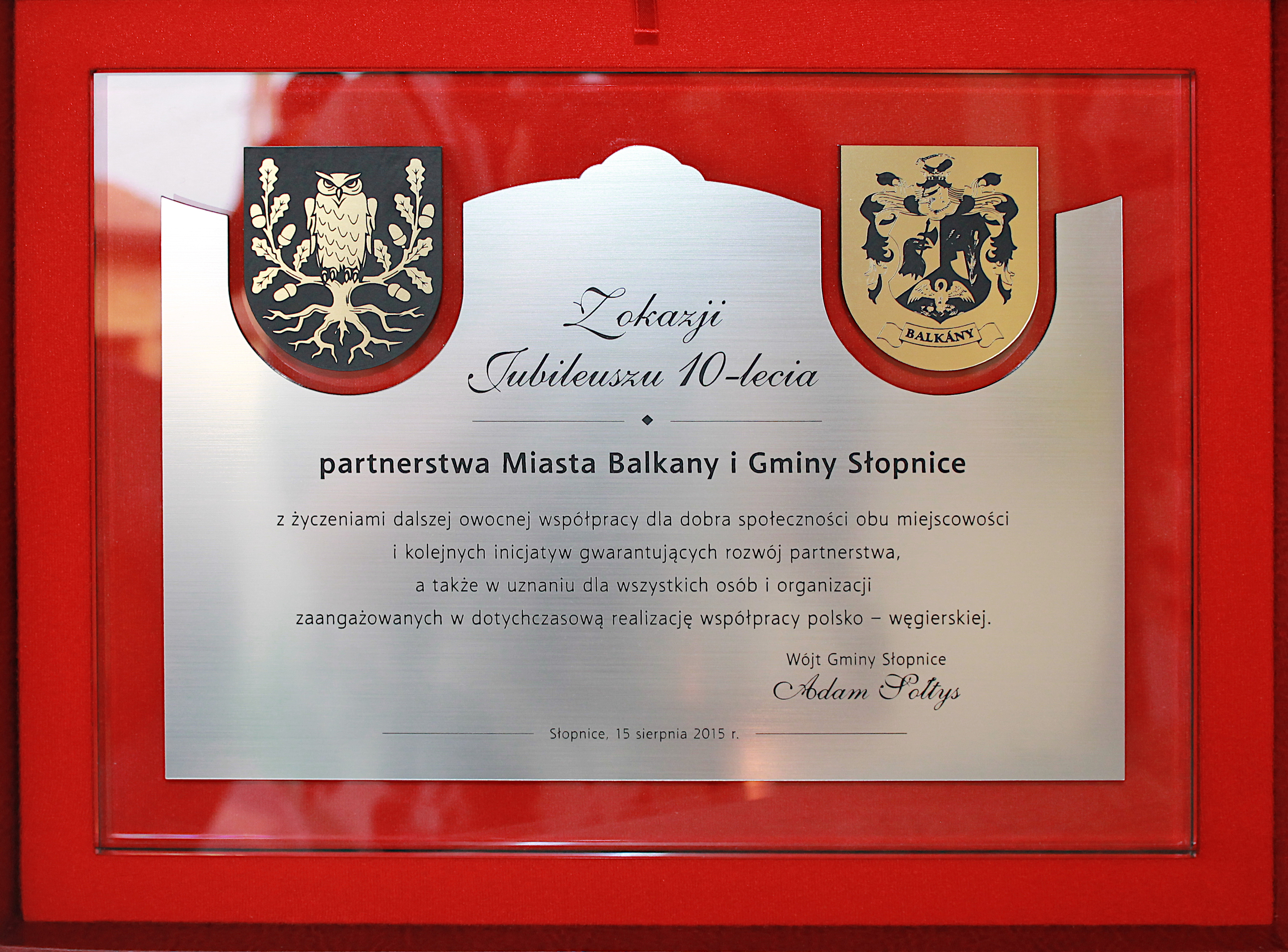 For the 10-year jubilee, Balkány–Słopnice sister towns